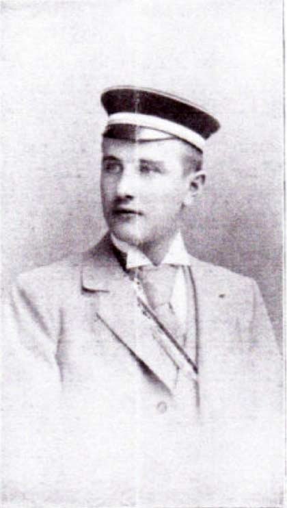 Photograph of the inventor of the hanging gas lamp Otto Felix Mannesmann, as it appeared in German newspapers after his death.